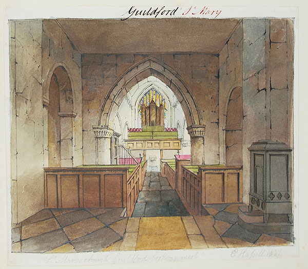 Watercolour of the interior of St Mary's Church, Guildford by John Hassell (1767–1827)